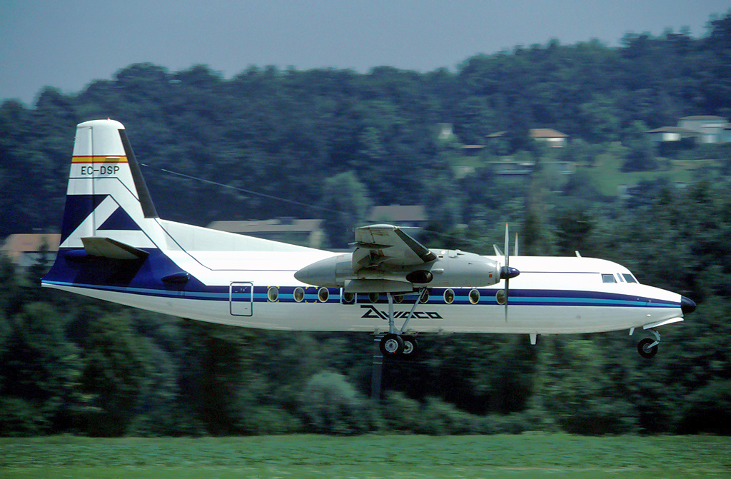 An Aviaco Fokker F-27-600 Friendship lands at Bern Airport (BRN / LSZB)